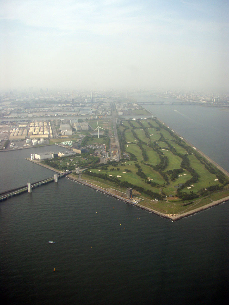 Aerial photograph of Wakasu Seaside Park and Shinkiba in Tokyo, Japan